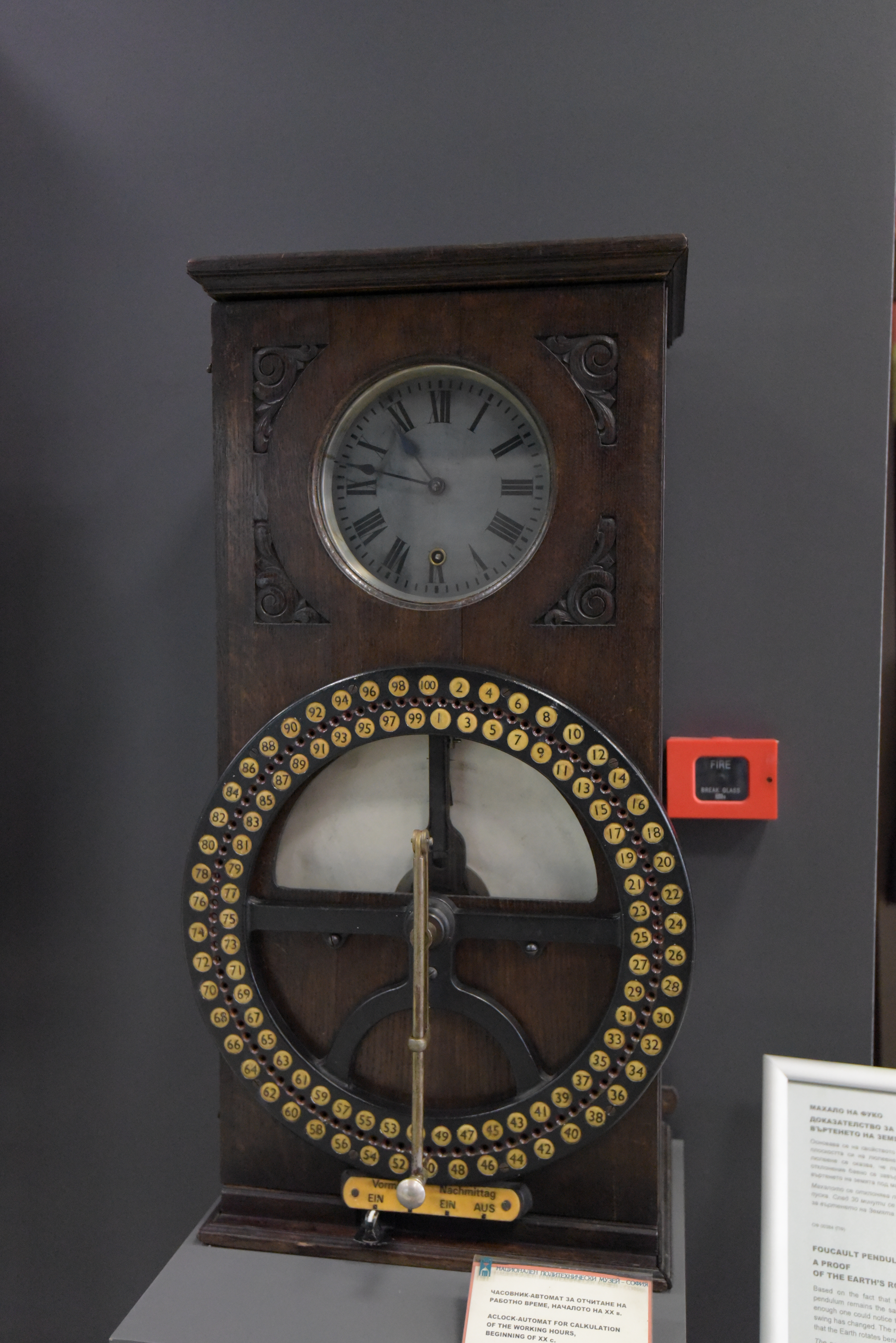 Aclock-automat for calculation of the working hours, beginning of XX century. Exhibit of the National Polytechnic Museum in Sofia, Bulgaria.